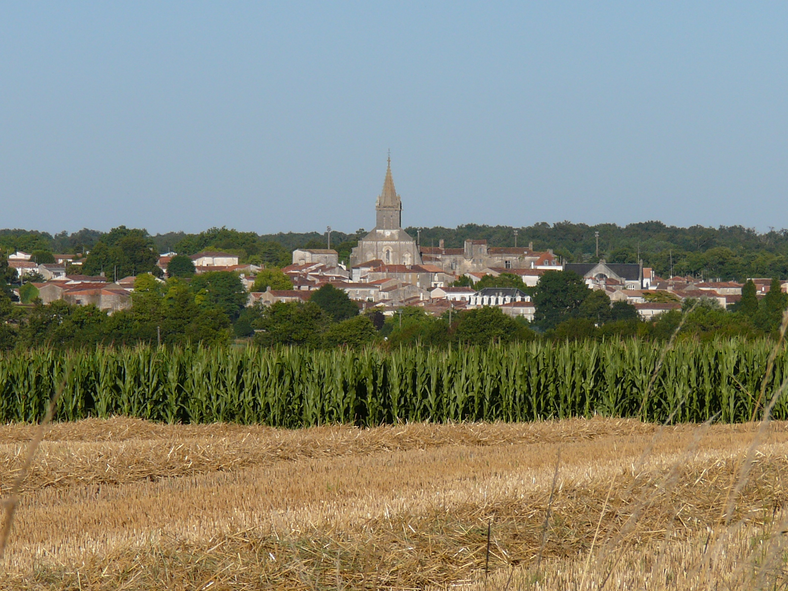 Pont-l'Abbé-d'Arnoult, général view of the village. Charente-Maritime (17), Poitou-Charentes, France, Europe.